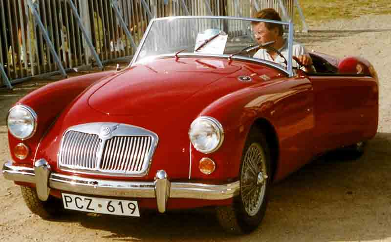 M.G. MGA 1600 Mk1 2-Seater Sports 1961